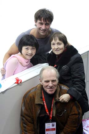 Yuko KAWAGUCHI and Alexander SMIRNOV by the boards with coach Tamara Moskvina and the Russia Team doctor Victor Anikanov at the 2007-2008 Grand Prix Final